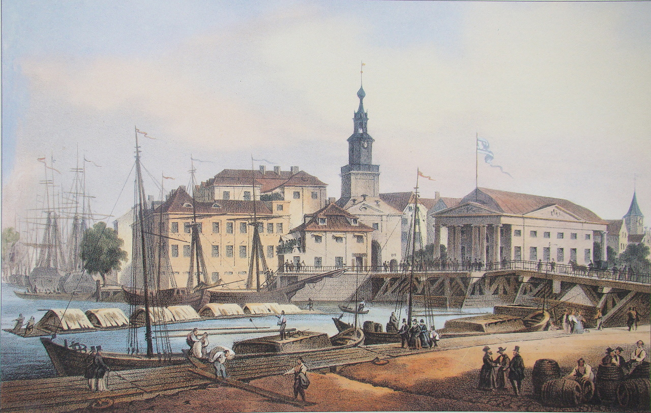 colorated lithograph of Königsberg stock exchange (ca. 1850)